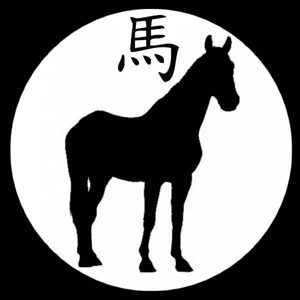 Signe astrologique chinois du Cheval